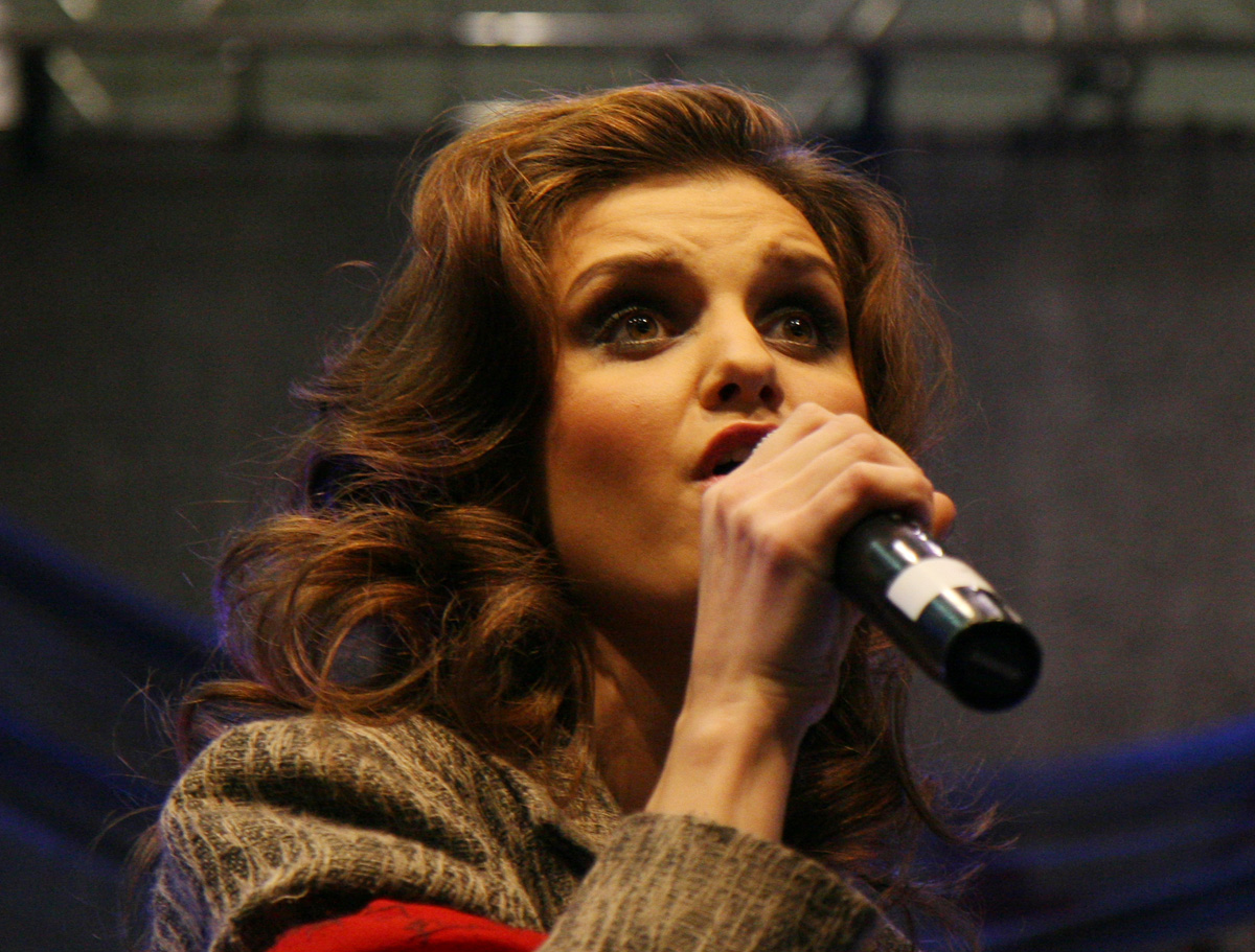 Malwina Kusior ("The Dance of the Vampires" in Reduta Mall, Warsaw, Poland)